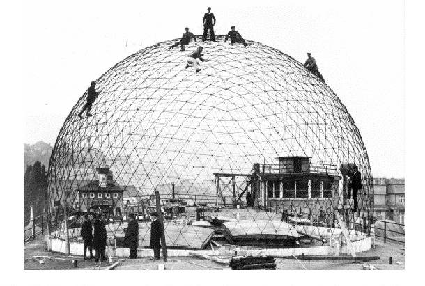 Facade view of Jena dome, under construction.